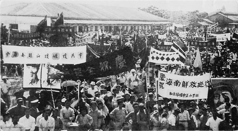 Hainan Island Liberation Celebration Assembly on May 1, 1950